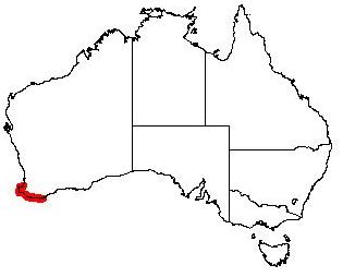 Exocarpos odoratus Occurrence data from Australasian Virtual Herbarium downloaded 2019-08-24 using